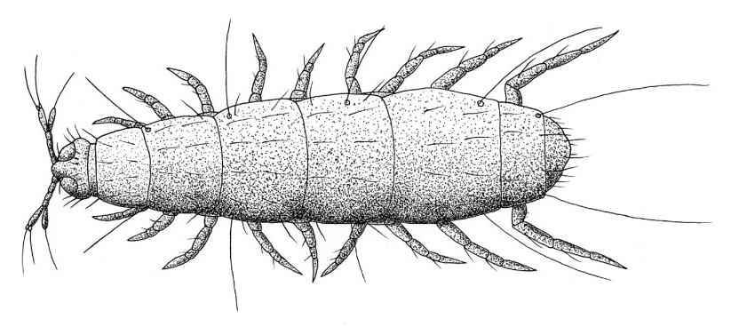 drawing of Pauropus huxleyi Lubbock, 1867 (Myriapoda: Pauropoda: Pauropodidae)